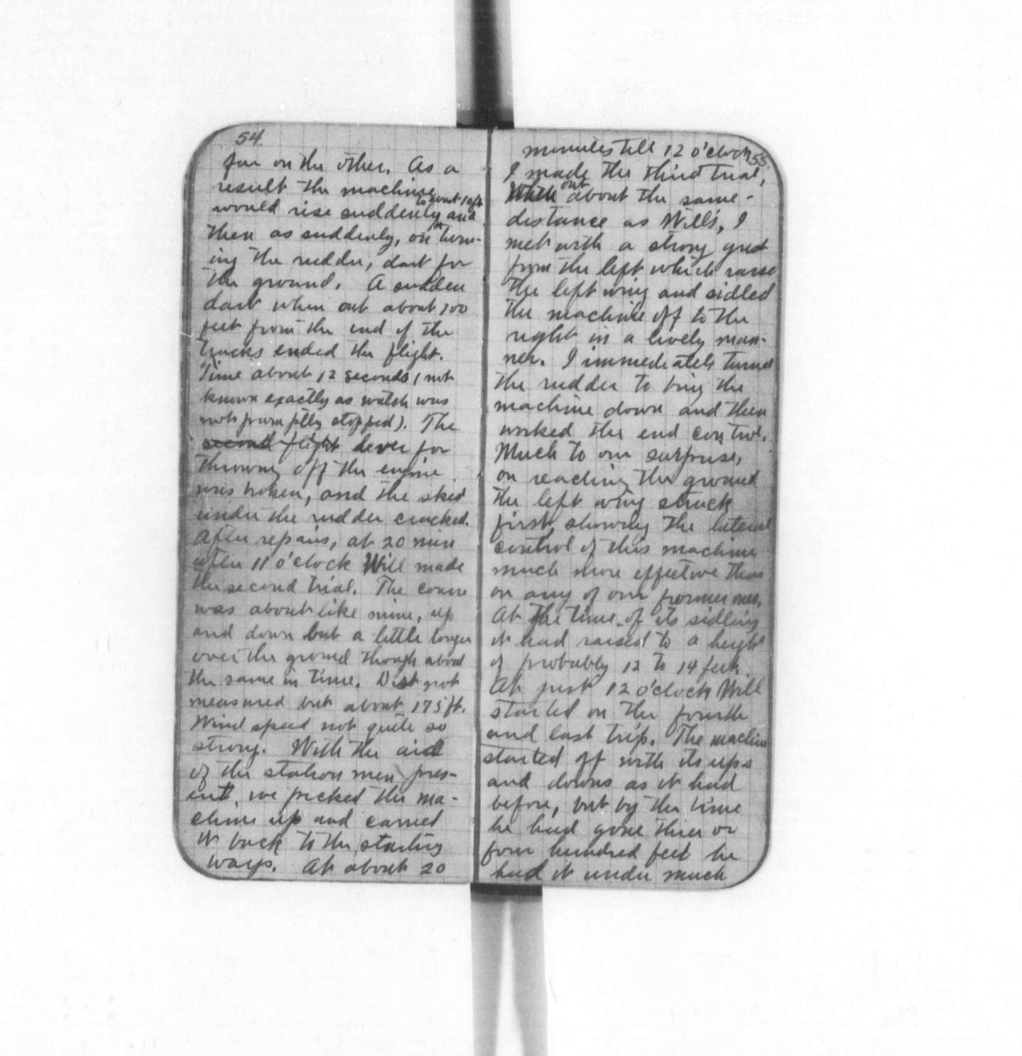 Orville Wright's diary from 1903, manuscript photograph. Entry notes the first successful airplane flight.